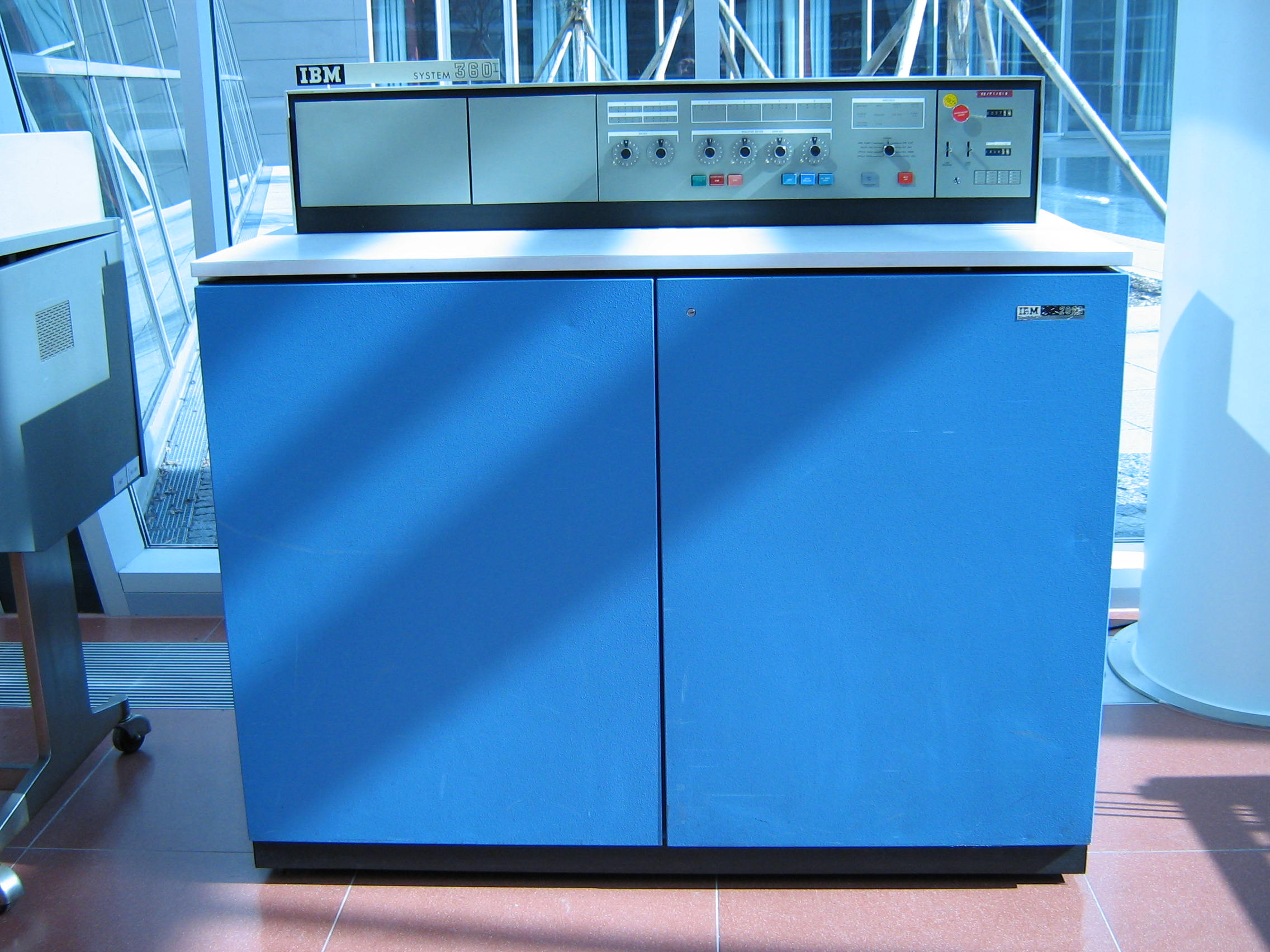 IBM System 360/Model 20 computer. Some Model 20's had 8K of memory.